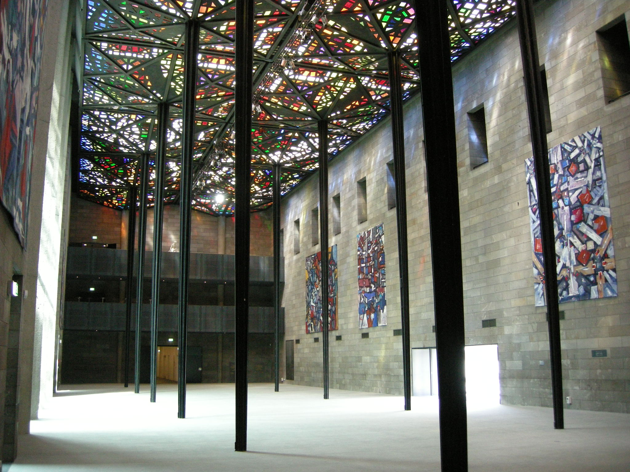 National Gallery of Victoria, great hall 02